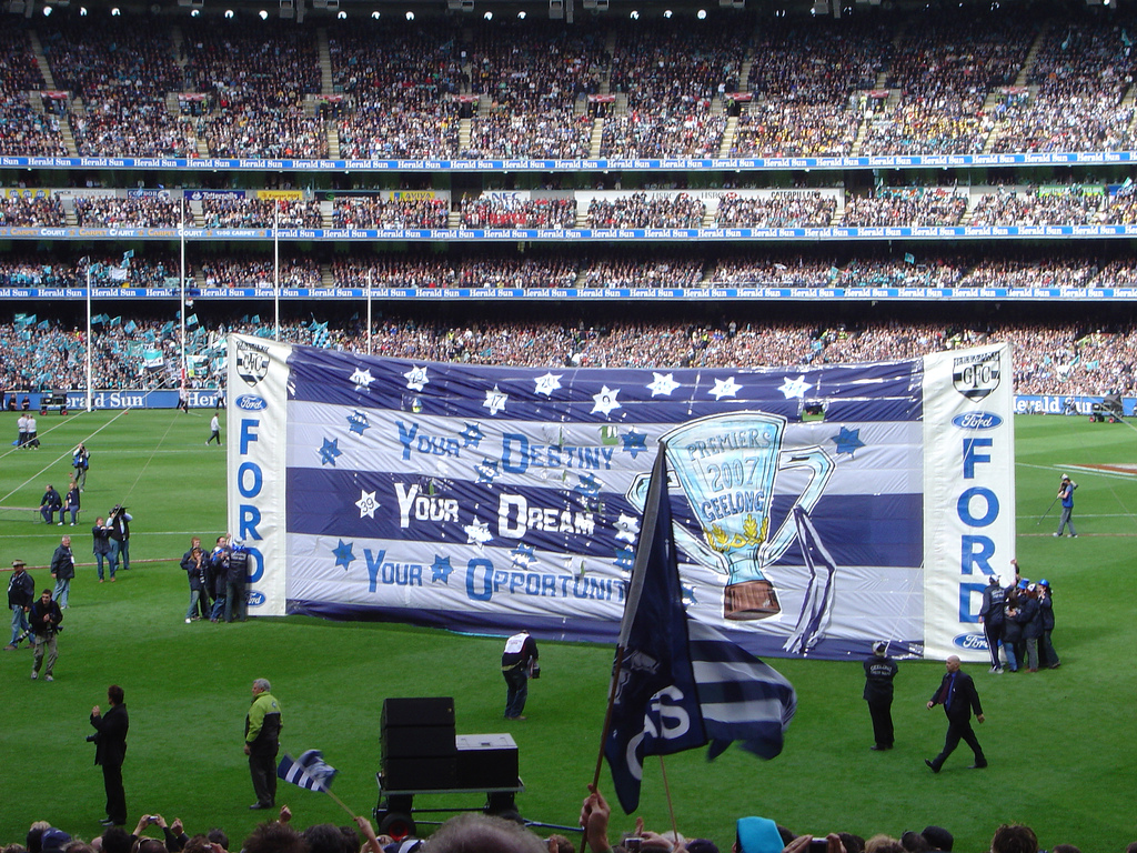 Geelong Football Club wins it's first AFL Grand Final since 1963 defeating Port Adelaide by a record margin.